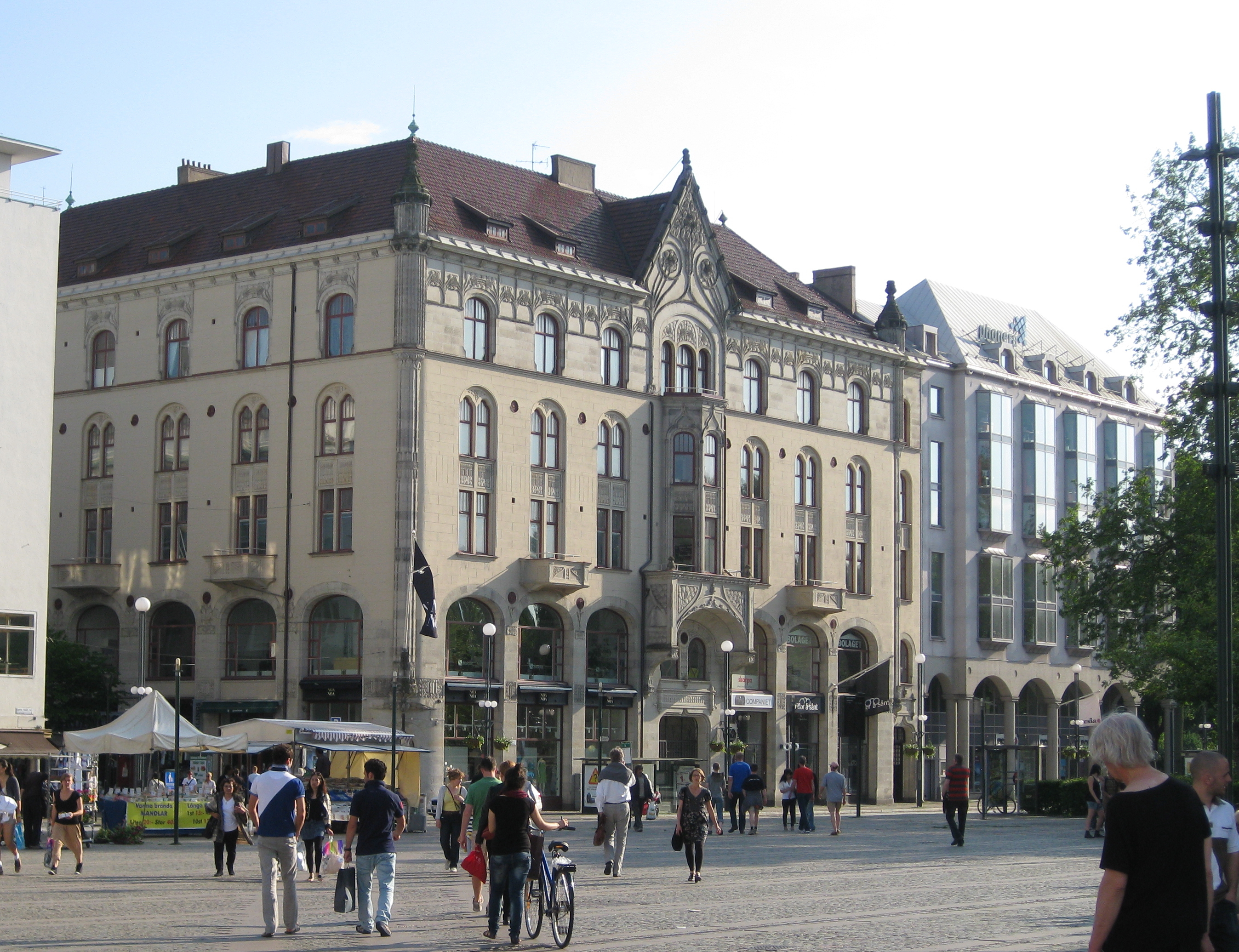 The Valhalla palace at Gustav Adolfs torg, Malmö